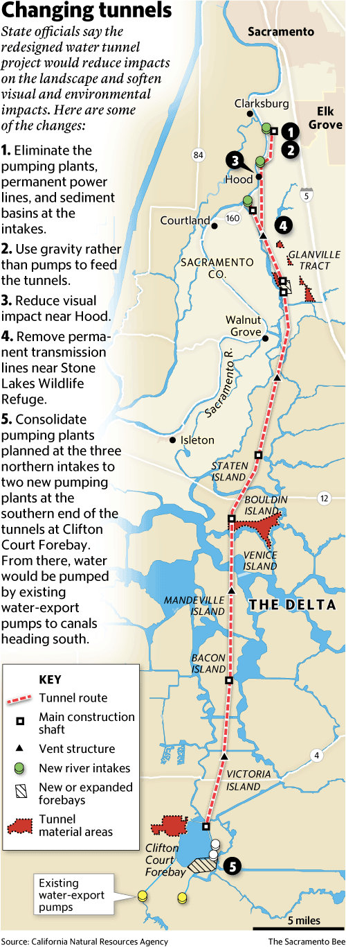 This is a map of the proposed tunnels in California through the California Water Fix.